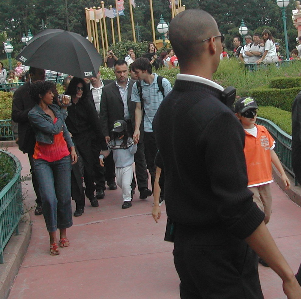 Michael Jackson with his children in Disneyland ParisMichael Jackson en Disneyland Paris 2